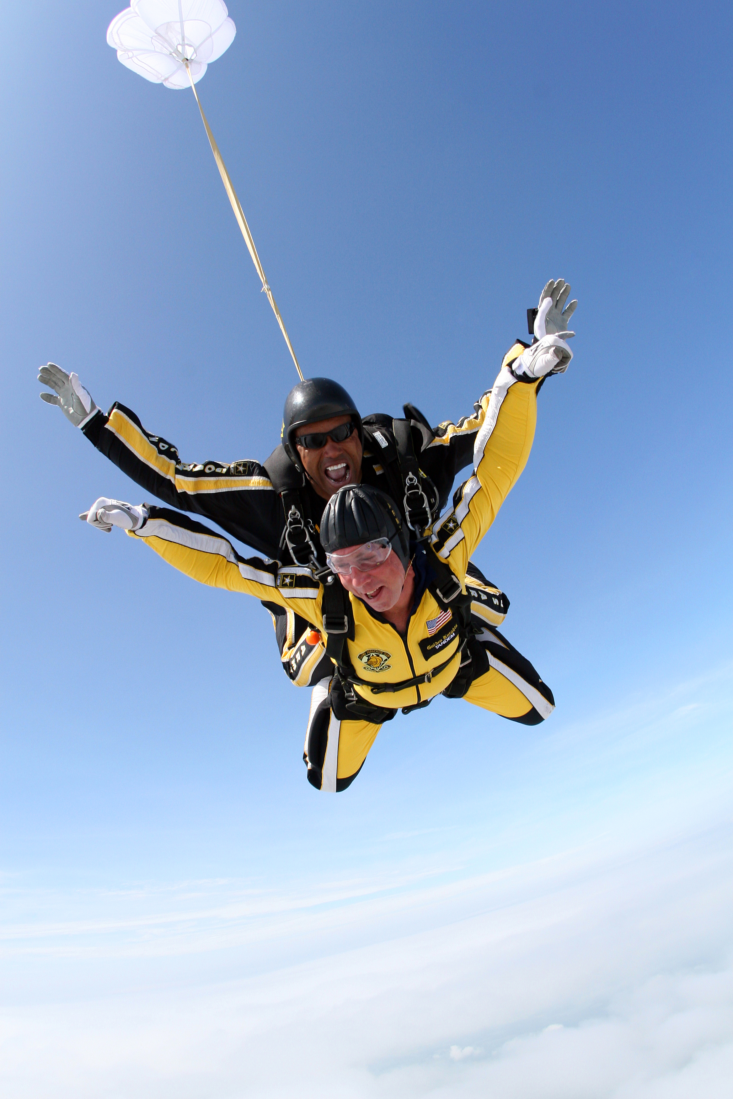 MAXTON, N.C. (Aug. 1, 2008) The Command Master Chief of Pre-Commissioning Unit George H.W. Bush (CVN 77), Jon D. Port, bottom, dives tandem with the Army's Golden Knights parachute team. Port's tandem partner, Sgt. 1st Class Michael Elliott, a Golden Knight tandem instructor, was also the tandem partner for former President George H.W. Bush during his 2007 jump marking the reopening of the George Bush Presidential Library and Museum in College Station, Texas. (U.S. Army photo by Sgt. 1st Class Bryan Schnell/Released)